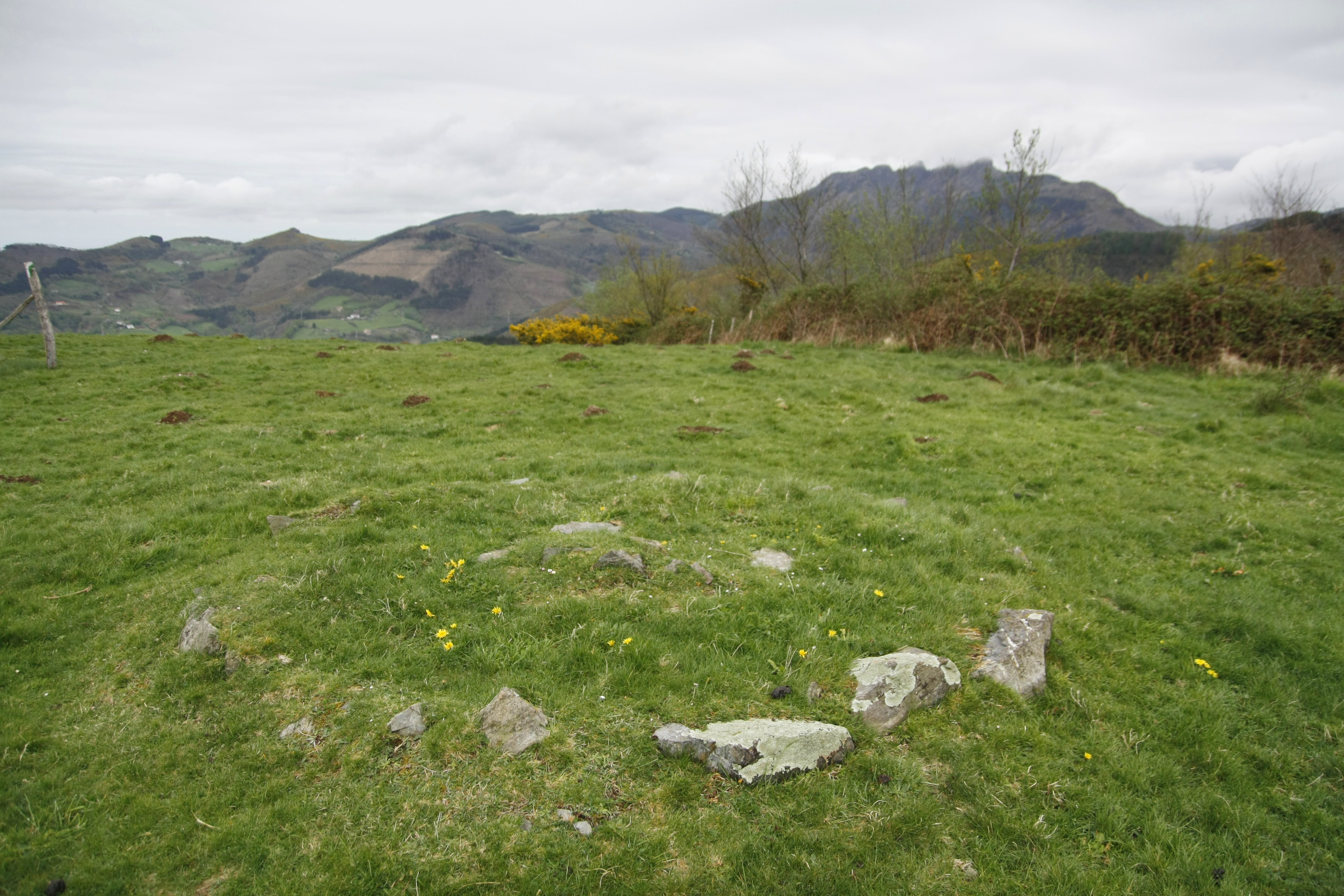 Elorritako Gaña cromlech.